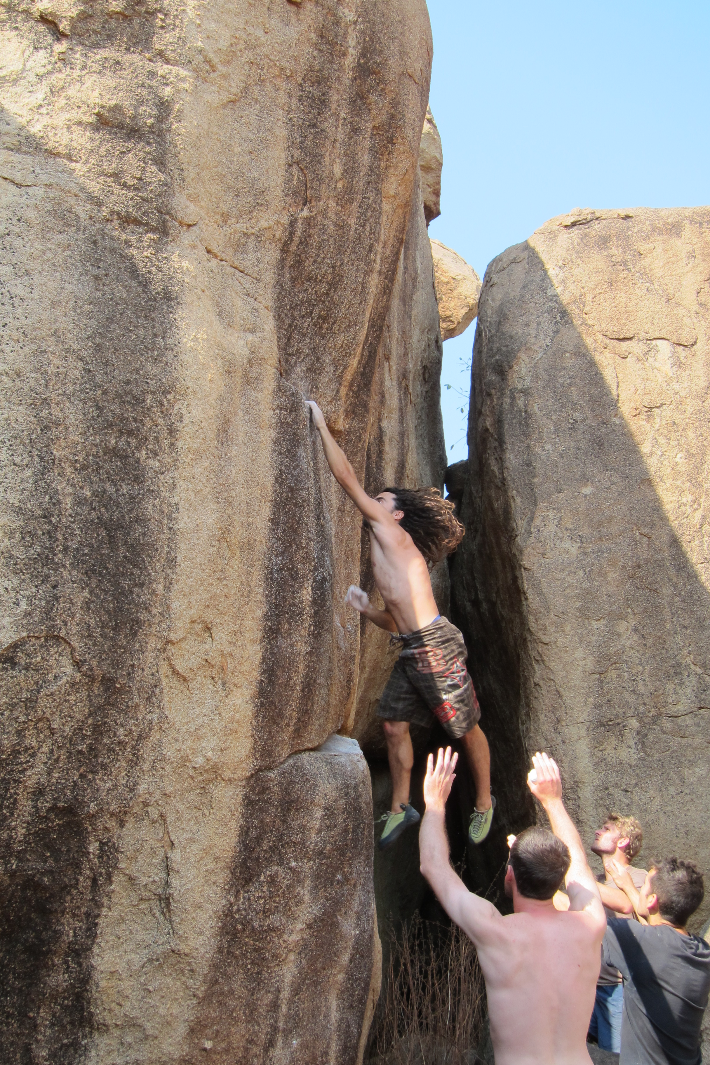 Pedro's got legs